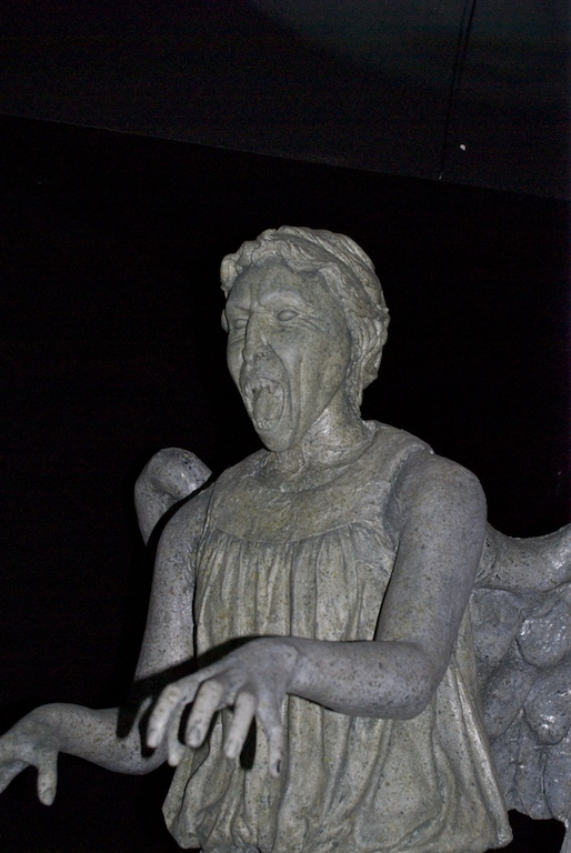 Angel Doctor Who Experience